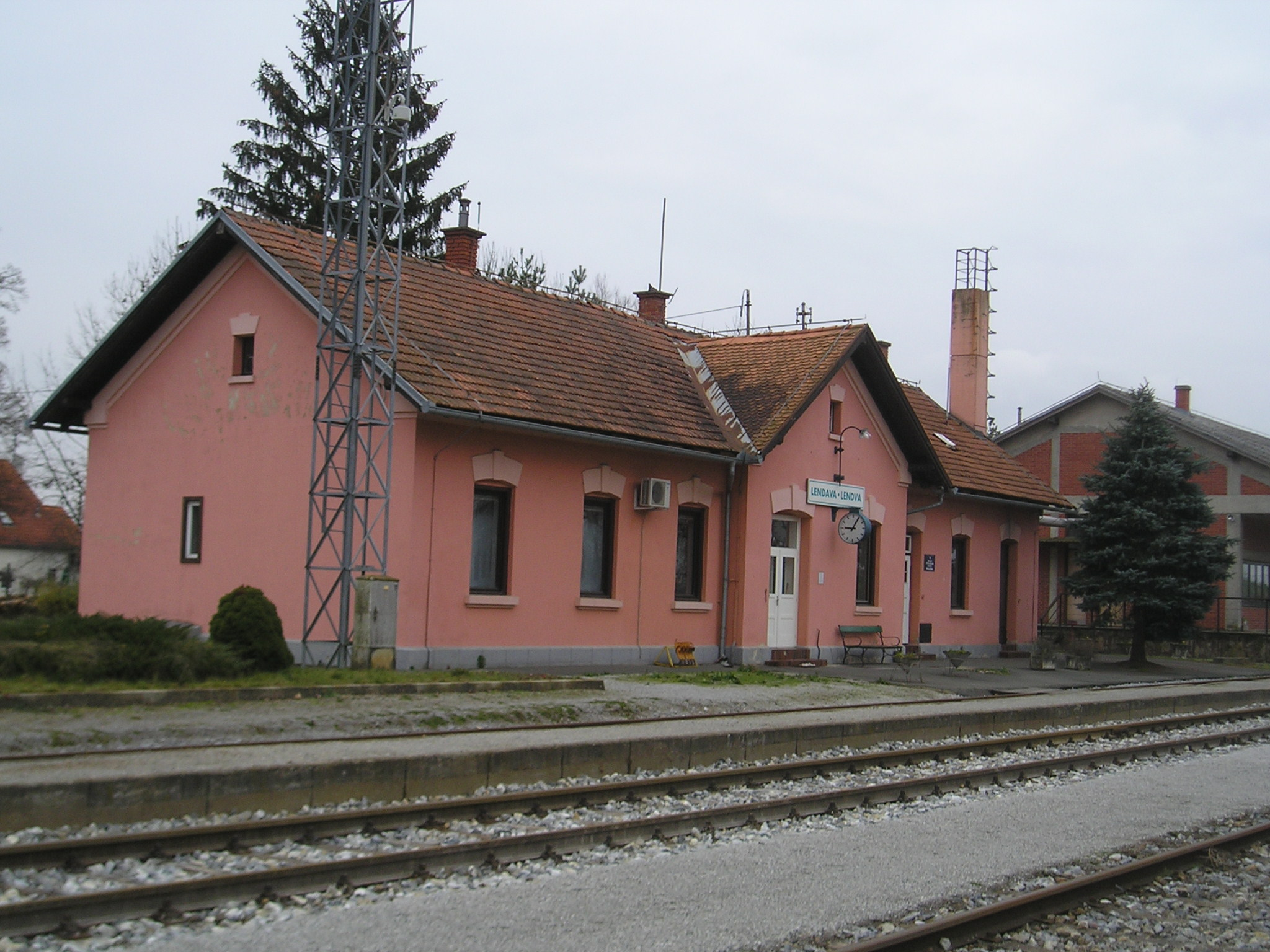 Train station in Lendava, Slovenia